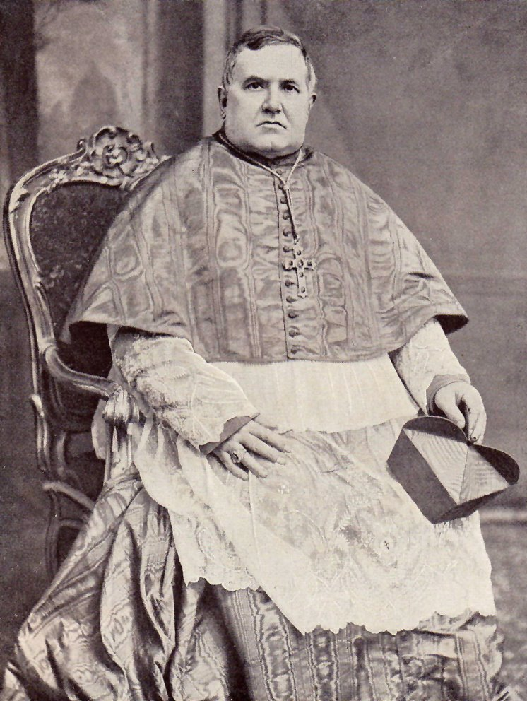 Cardinal Lucido Maria Parocchi (1833-1903), secretary of the Supreme Sacred Congregation of the Holy Office (current Congregation for the Doctrine of the Faith).